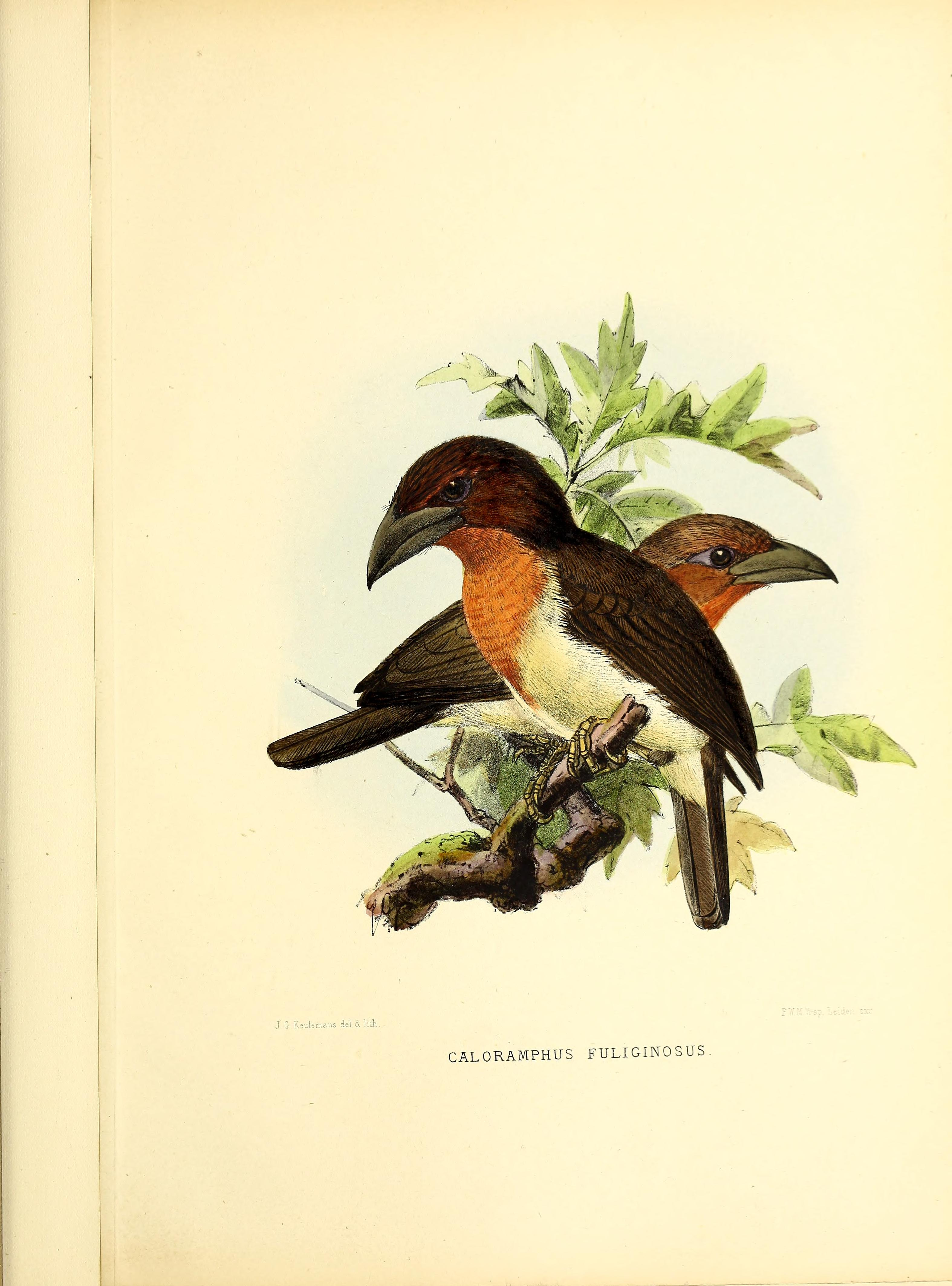 A monograph of the Capitonidæ, or scansorial barbets /